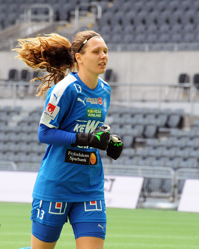 Jennifer Falk playing for Mallbackens in April 2015